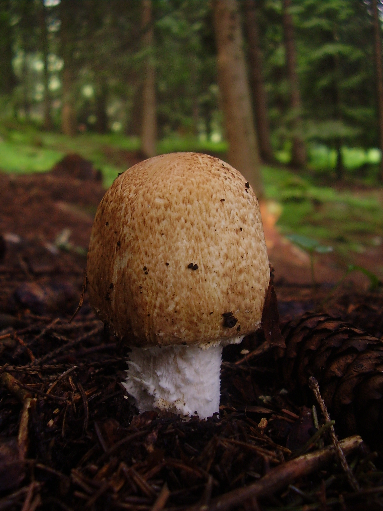 Agaricus augustus button from coniferous forest near Dospat reservoir, Bulgaria.